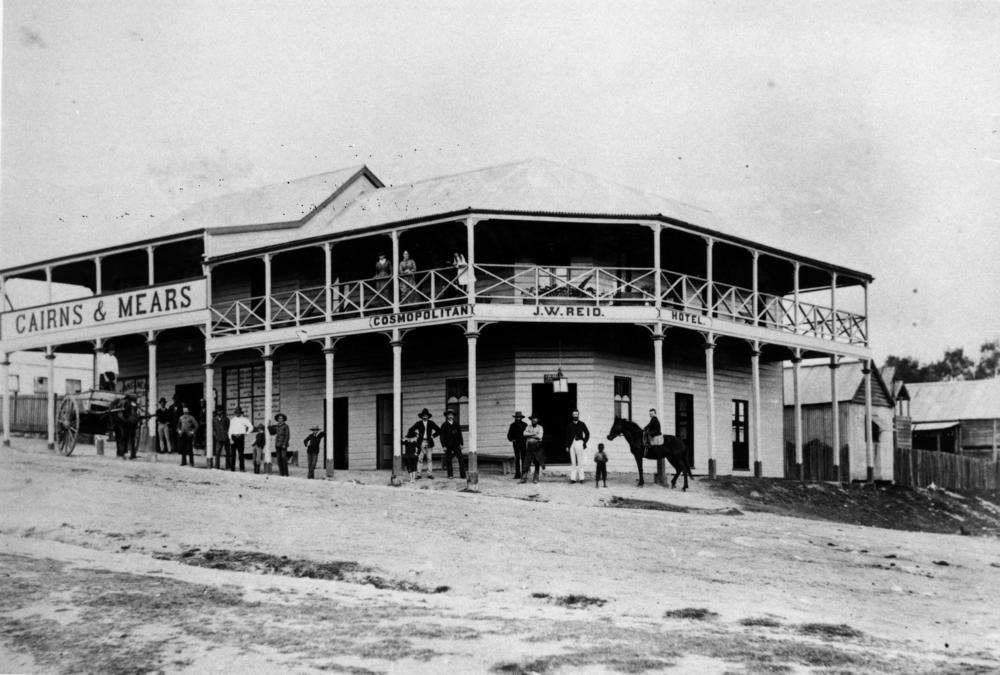 Cosmopolitan Hotel, Herberton, 1888. Exterior view of the Cosmopolitan Hotel, Herberton. Cairns & Mears mining brokers have premises next door.